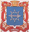 Coat of Arms of Suksunsky rayon, Perm krai, Russia, 1999